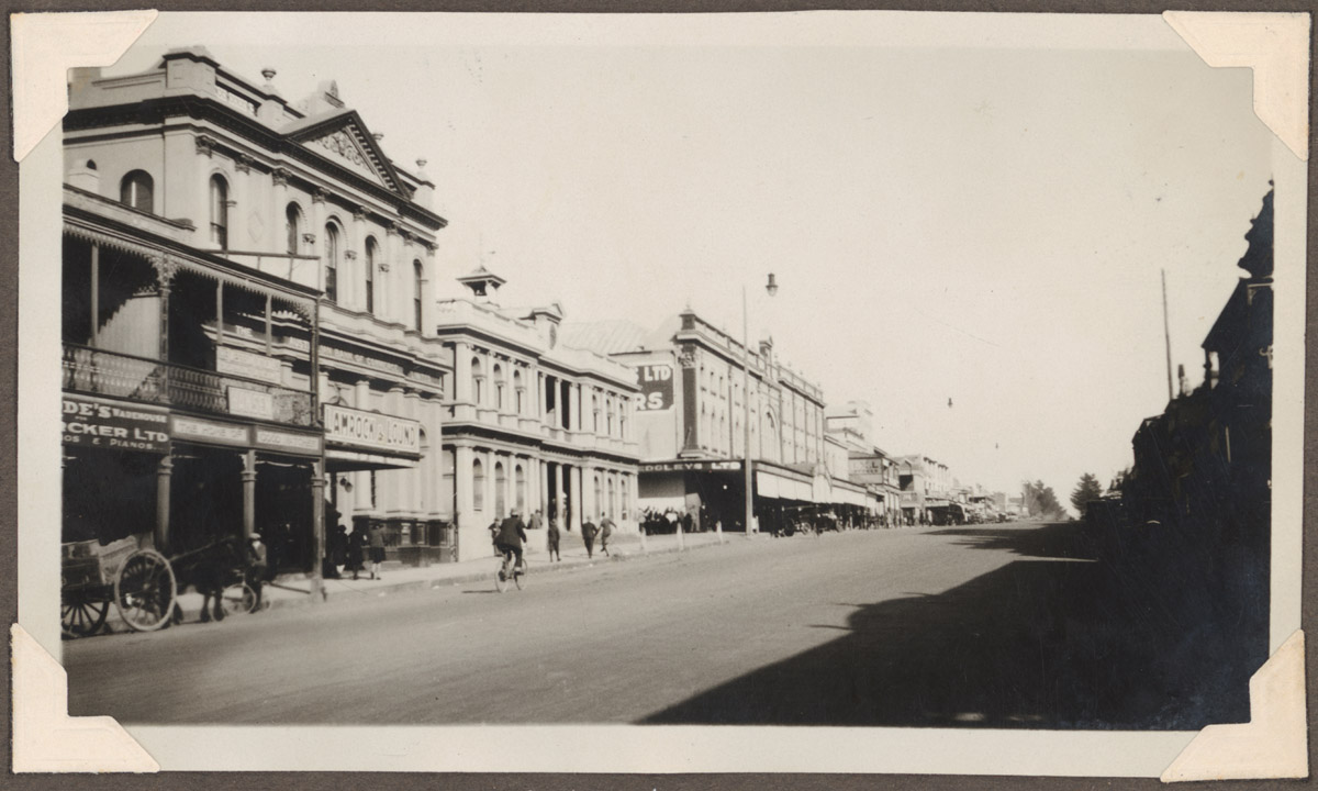 Orange - Summer St Street Dated: 5/9/1929 Digital ID: 549_a029_a029000181 Rights: No known copyright restrictions We'd love to hear from you if you use our photos/documents. Many other photos in our collection are available to view and browse on our website using Photo Investigator.